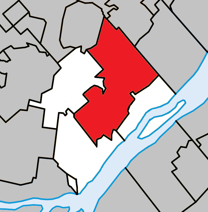 Location of L'Assomption, Quebec within L'Assomption Regional County Municipality.